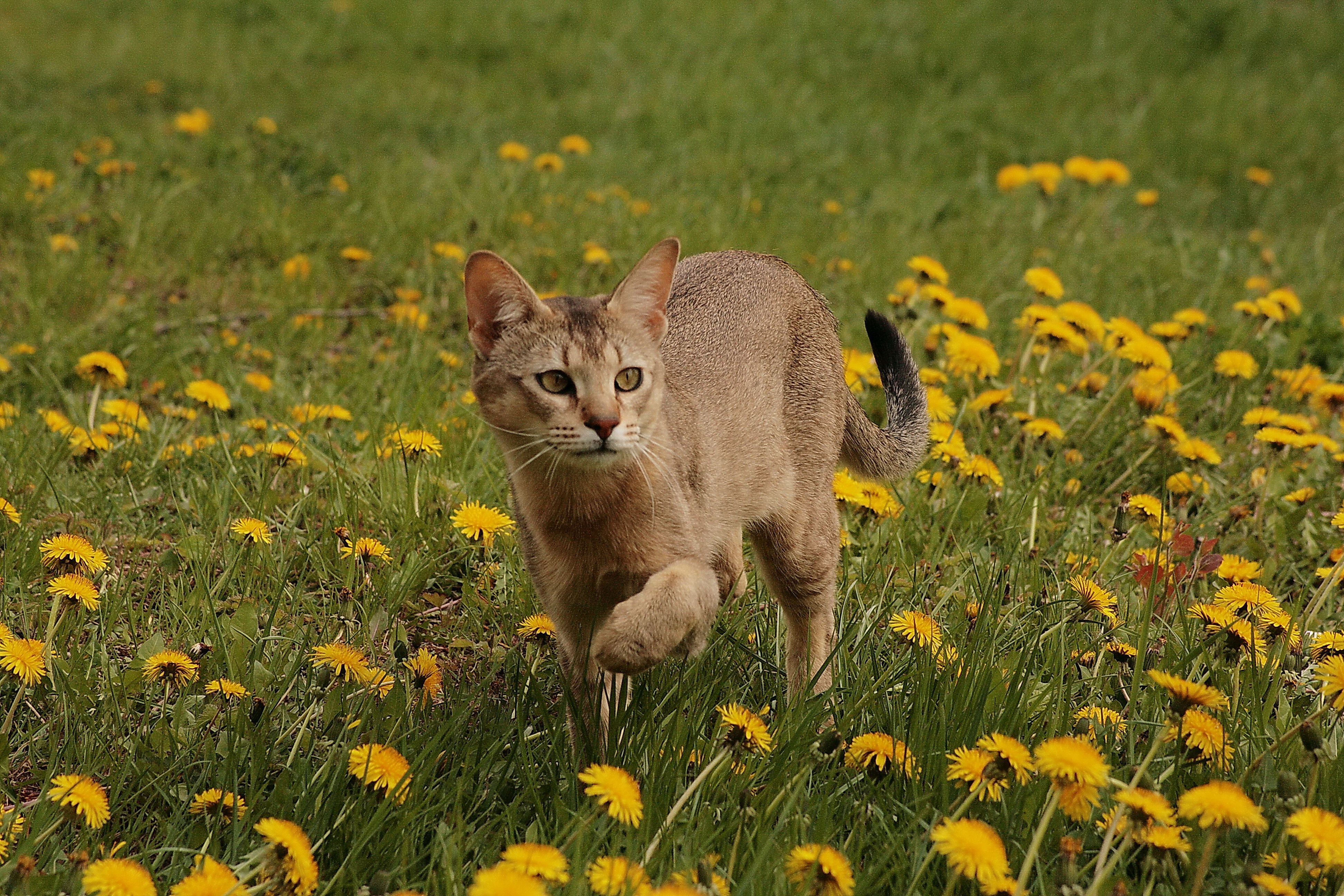 Abicatz Zamphyr